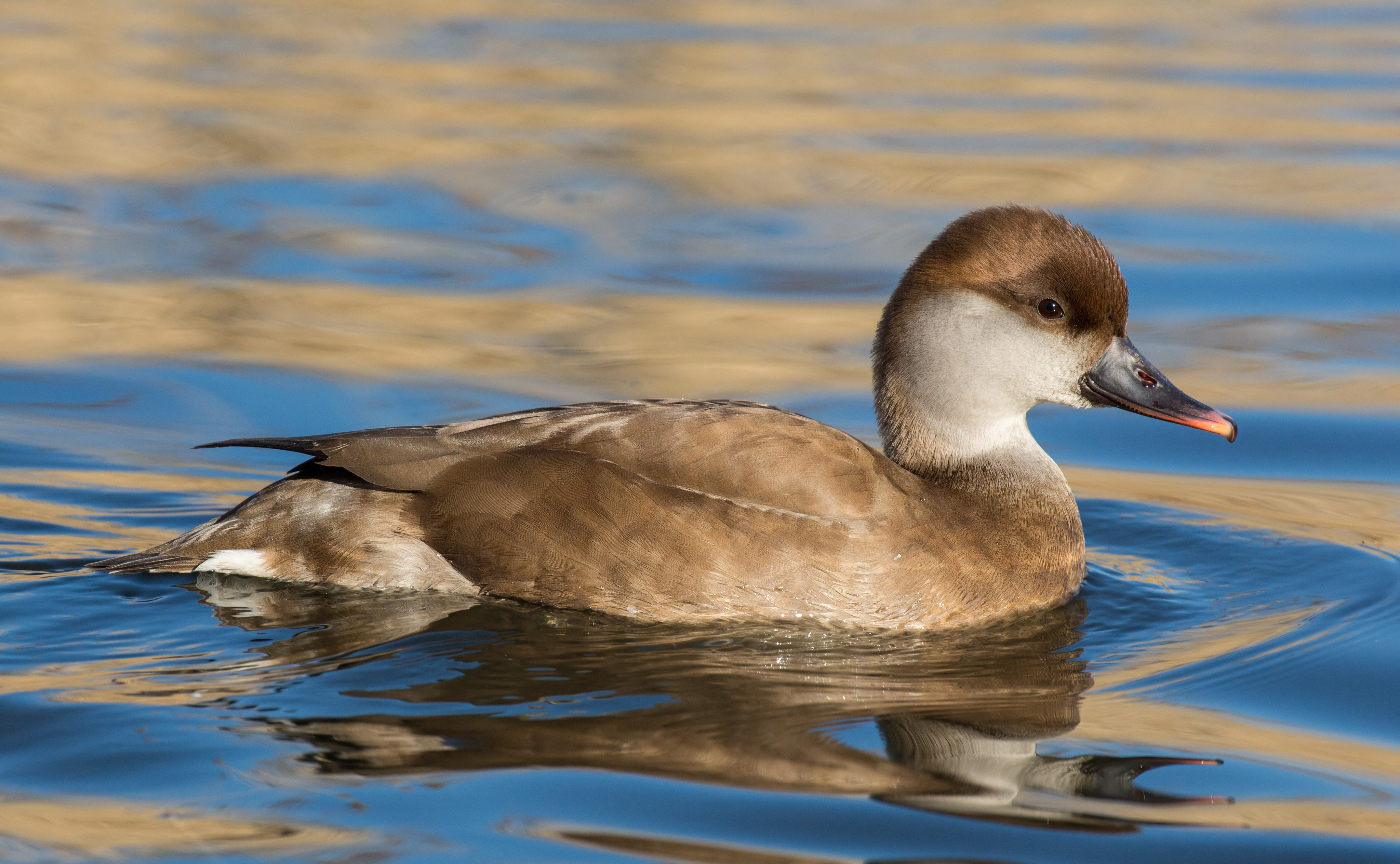 A female Netta rufina, also known as the Red-crested Pochard, at the London Wetland Centre in Barnes, London, UK.